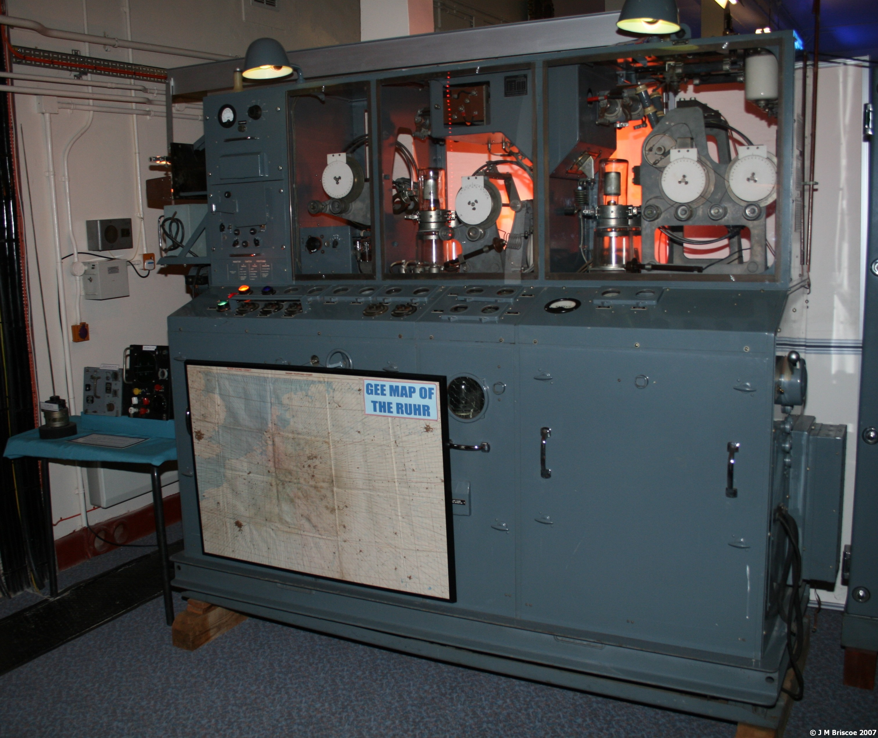 GEE Transmitter At RAF Air Defence Museum